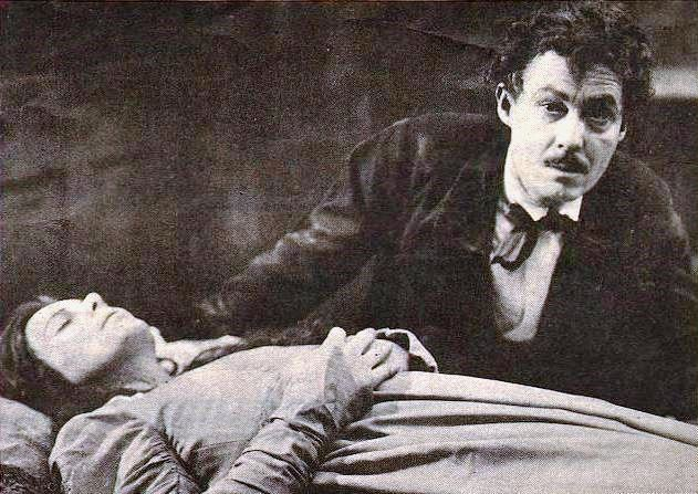 Still from the American biography film The Raven (1915) with Henry B. Walthall and Warda Howard, on page 4 of the December 1915 Movie Pictorial.